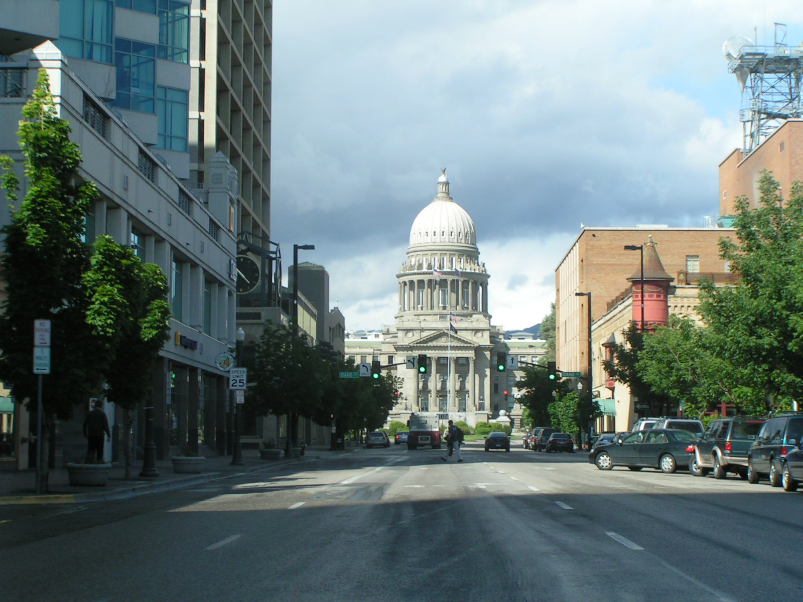 Idaho State Capitol. Ido: La kapitolio di Boise, Idaho.